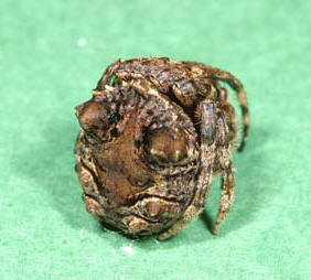 female Poltys illepidus from Okinawa.